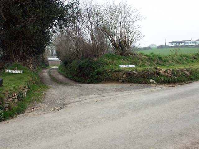 Lane leading to Chynhale